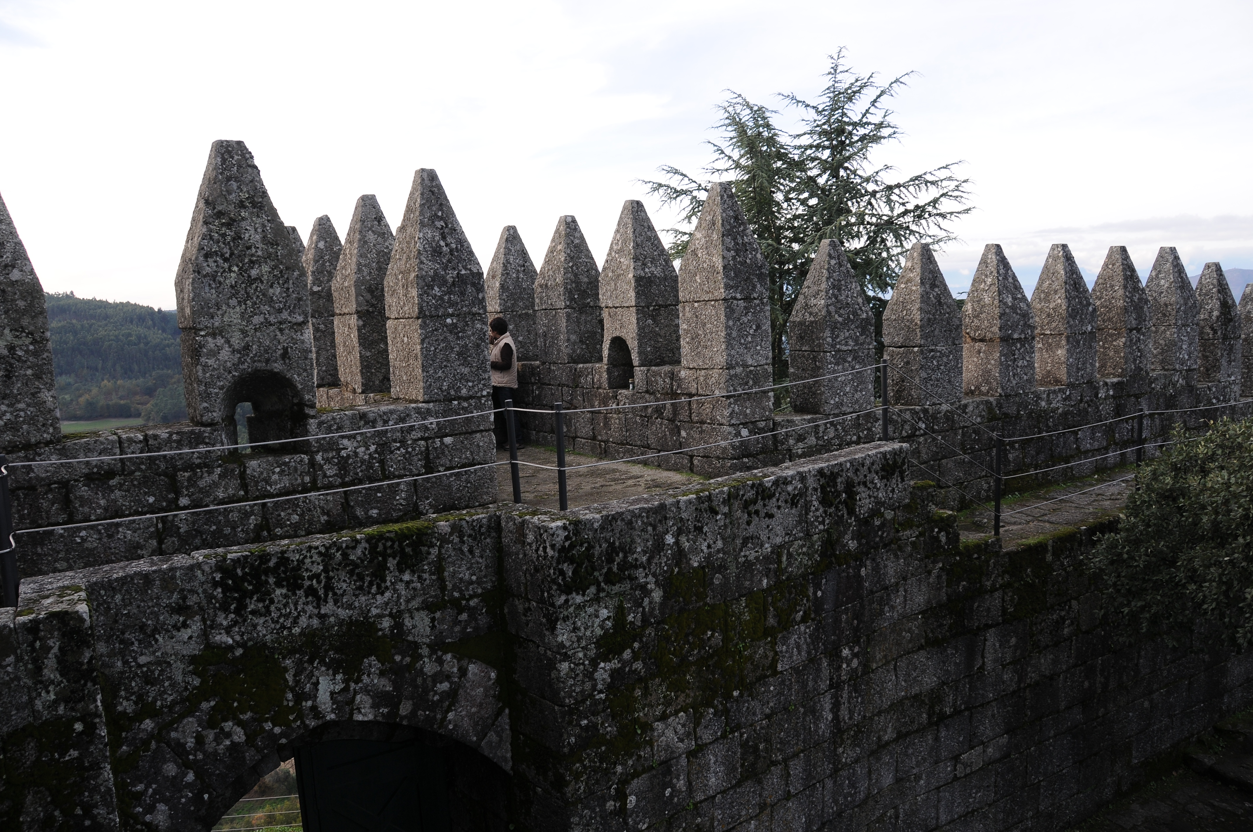 Lanhoso Castle in Póvoa de Lanhoso, Portugal.